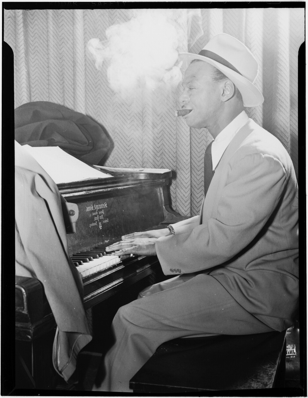 Earl Hines, New York